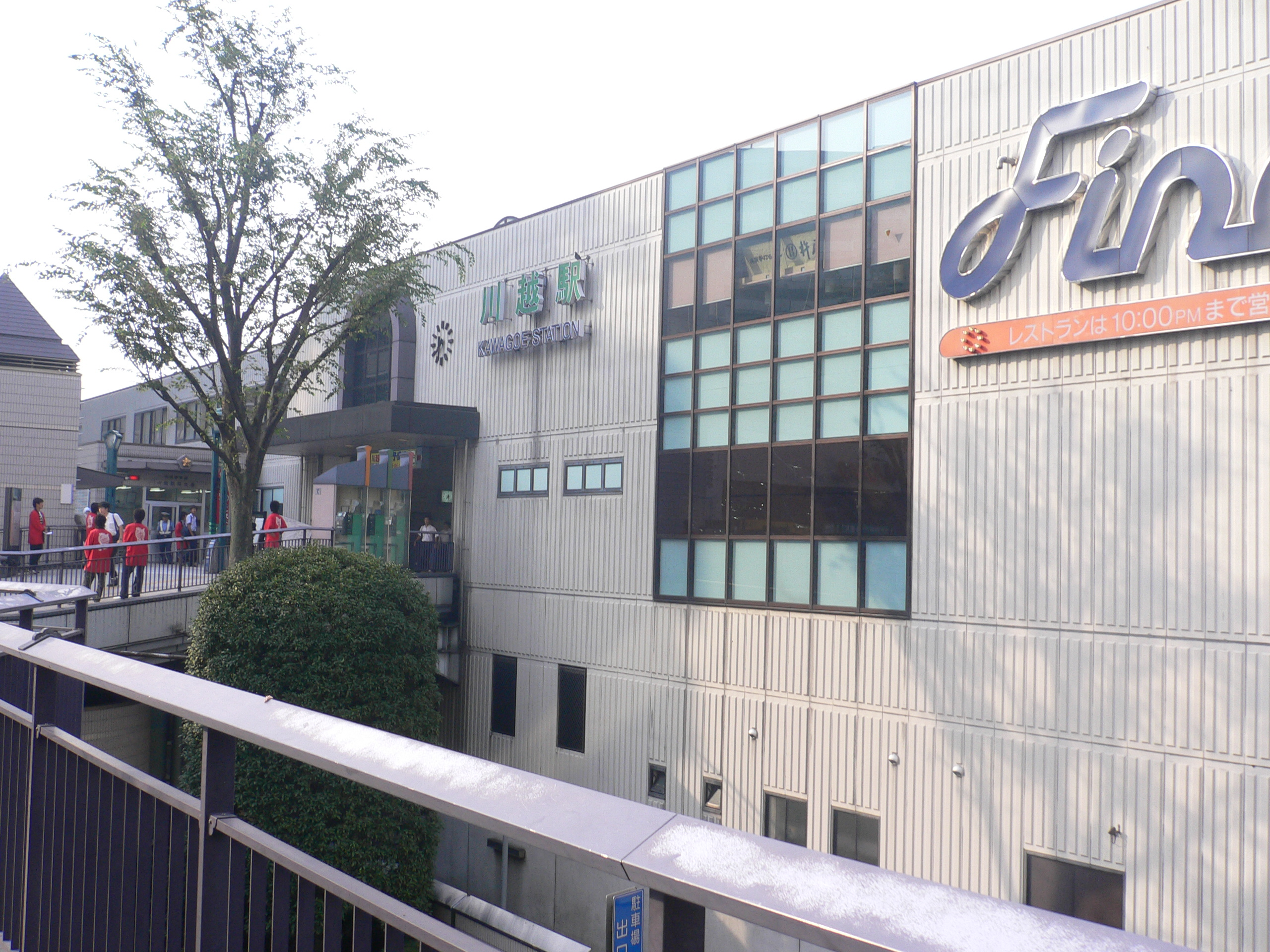 East exit of Kawagoe Station in Kawagoe, Saitama, Japan